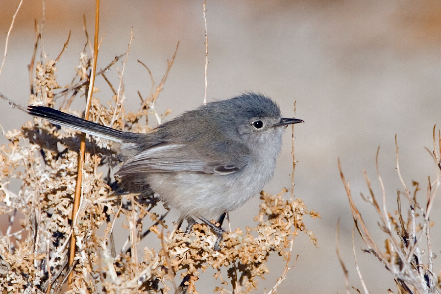 Polioptila caerulea - Blue-gray Gnatcatcher, Visitor's Center, Anza Borrego Desert State Park, Borrego Springs, California.